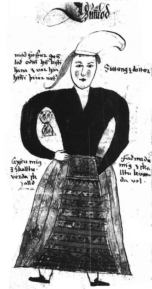 An illustration of the Norse figure Gunnlöð, from an Icelandic 17th century manuscript. A scan of a black and white photography.